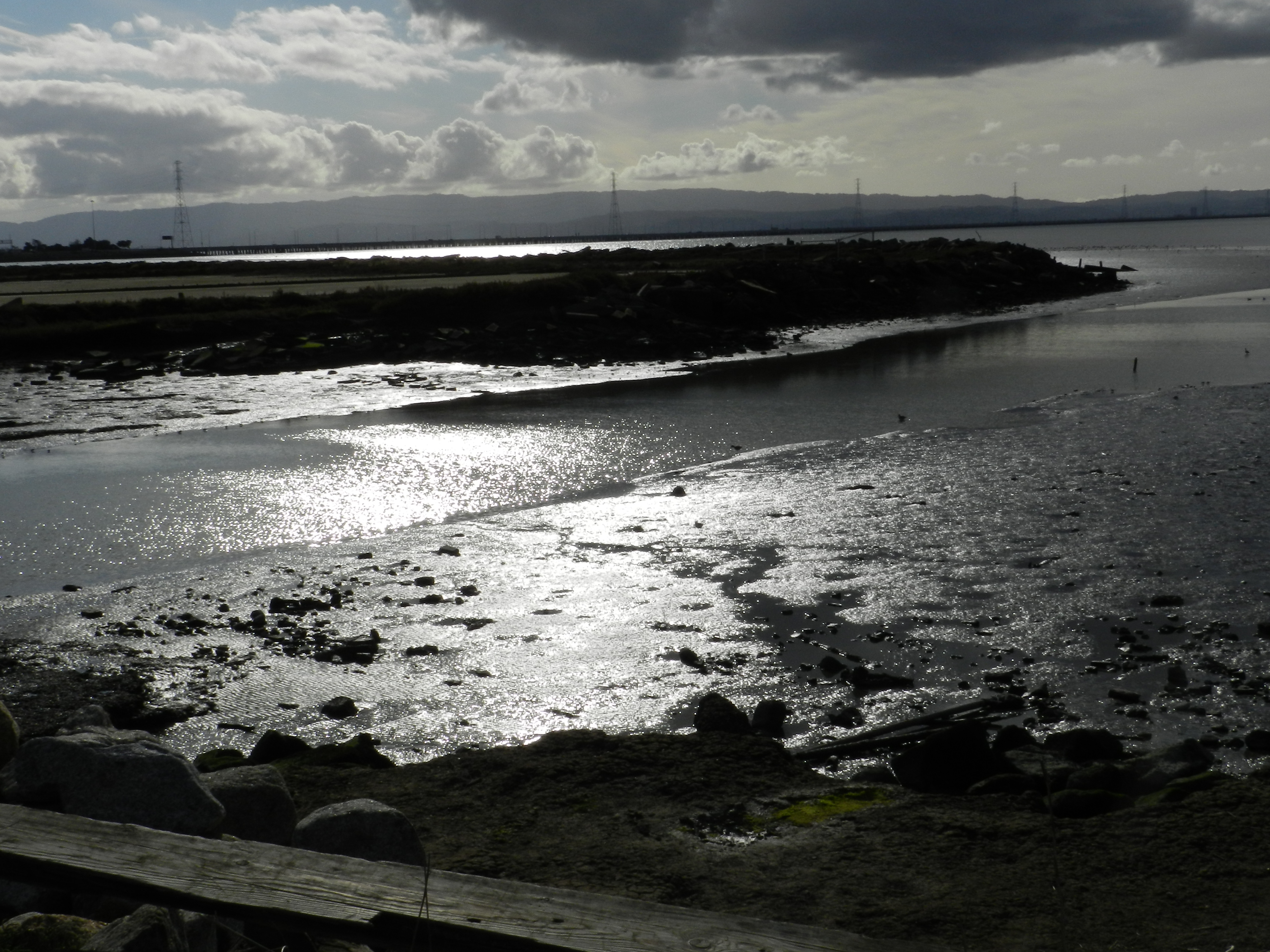 salt marsh, near Hayward Shoreline Interpretive Center building, adjacent to highway 92, Hayward, California